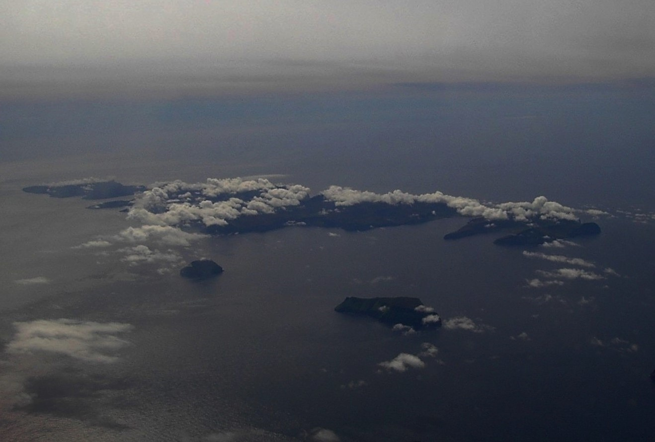 Suðuroy, seen from the air